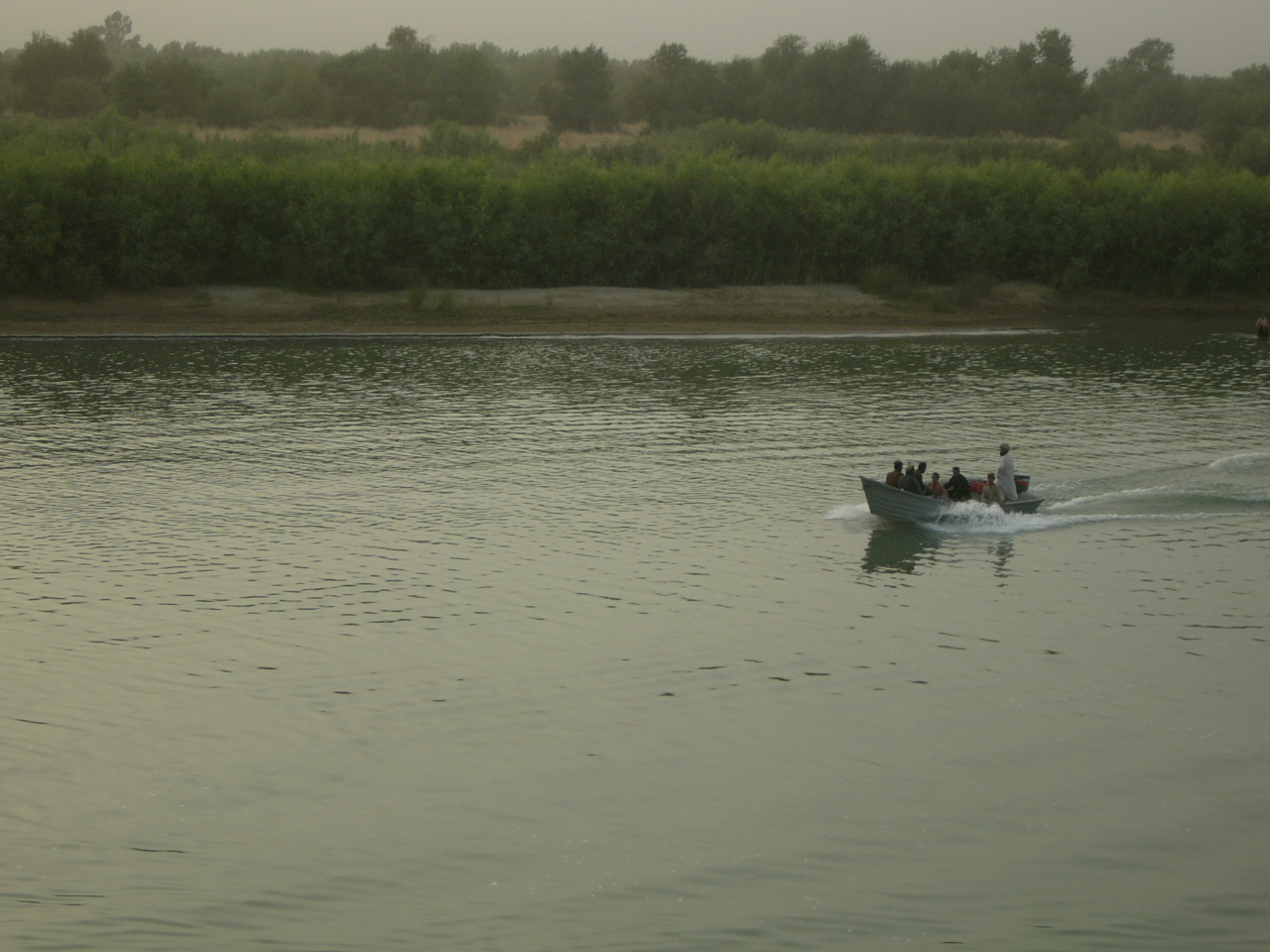 Boat in Lashkar Gah, Afghanistan